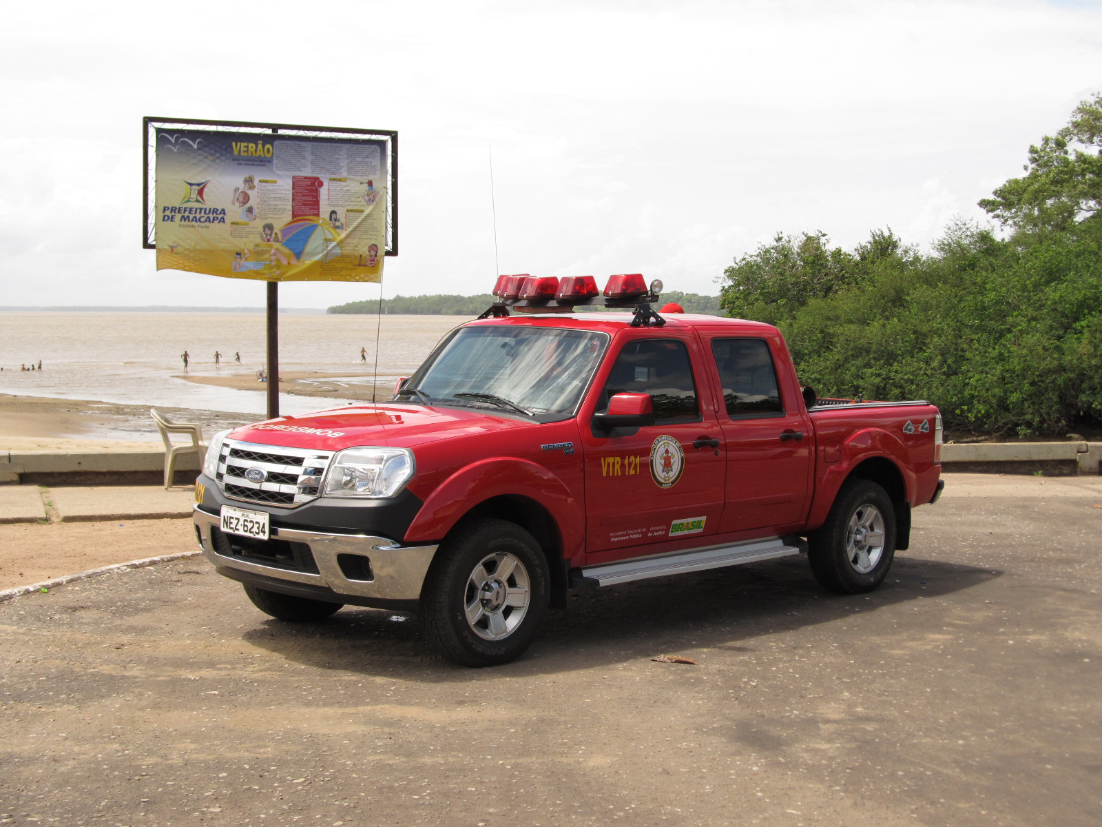 South American 2010–2012 Ford Ranger Double Cab in Macapá, State of Amapá, Brazil